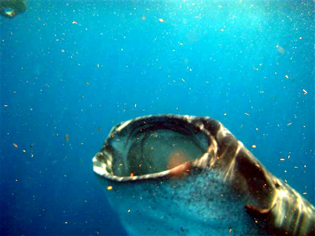 Whale shark eating plankton